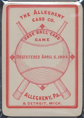 The Baseball Card Game card back from 1904.